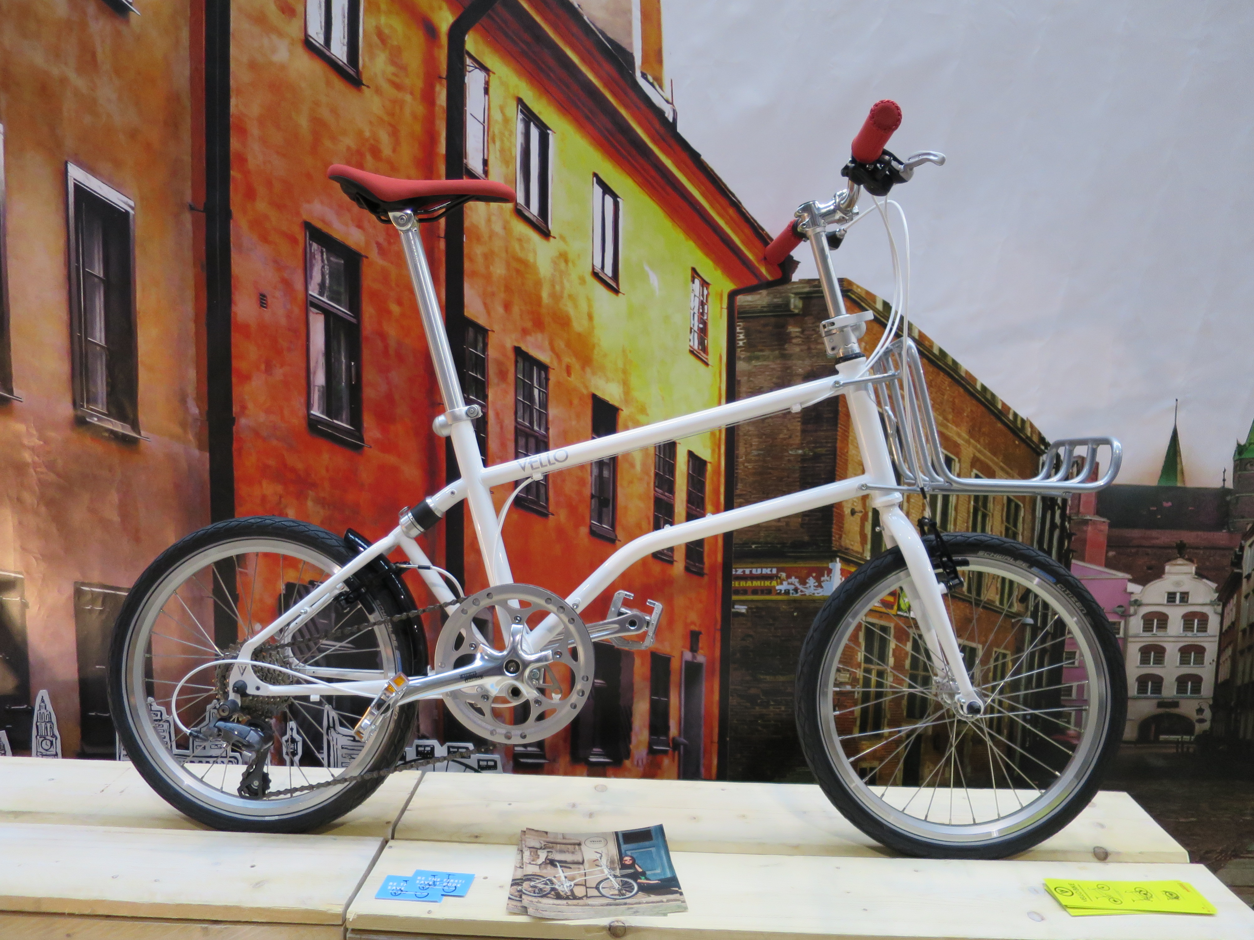 Vello folding bike Berliner Fahrradschau 2017.